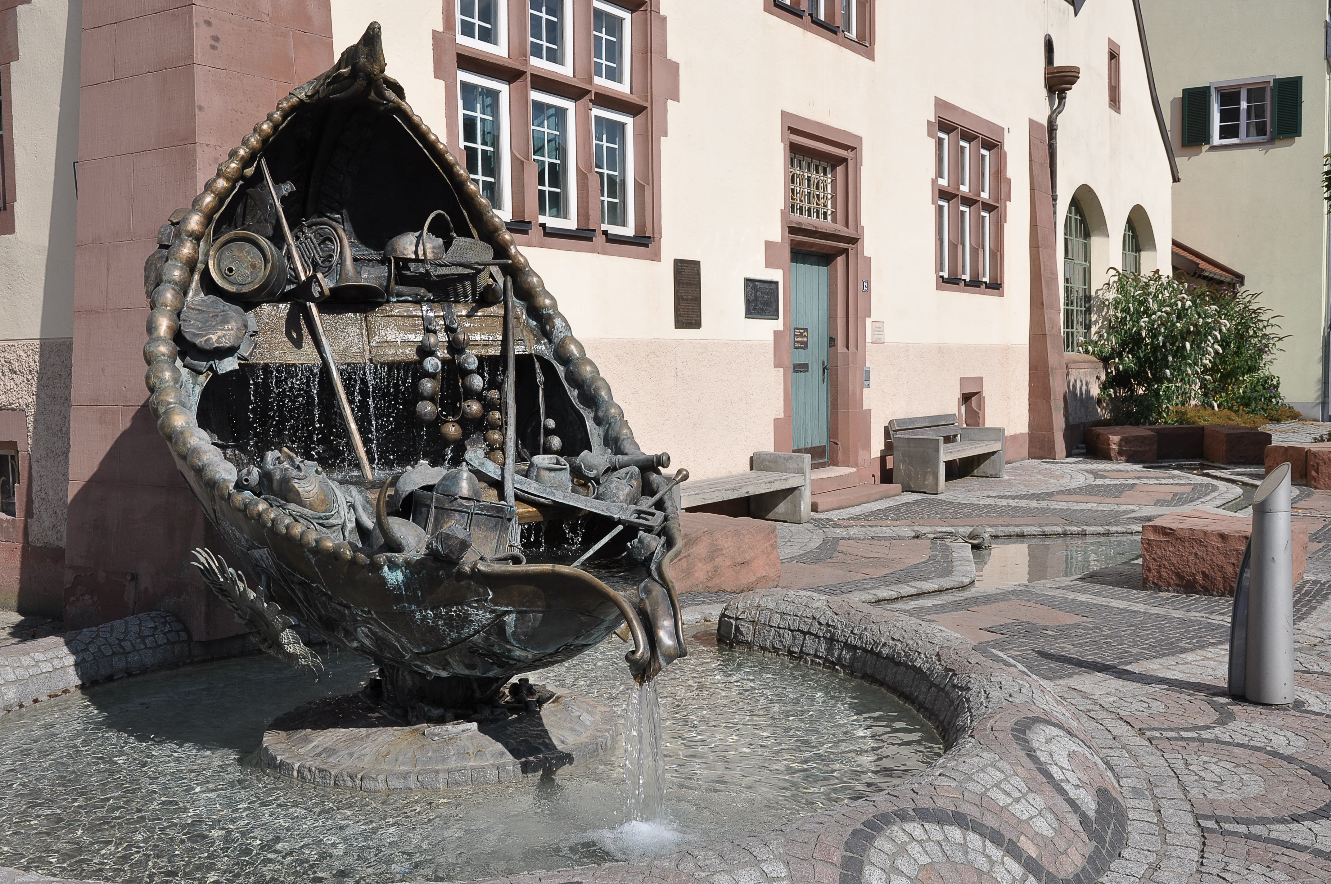 Carnival fountain Narrenschiff, 2004, Bräunlingen, district Schwarzwald-Baar-Kreis, Baden-Württemberg, Germany